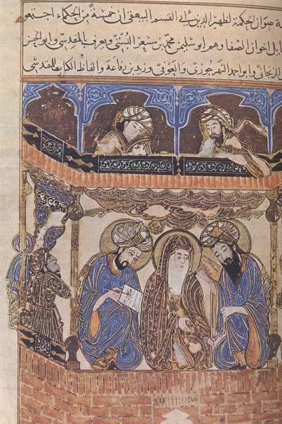 Islamic drawing of a Muslim faqih and his students.